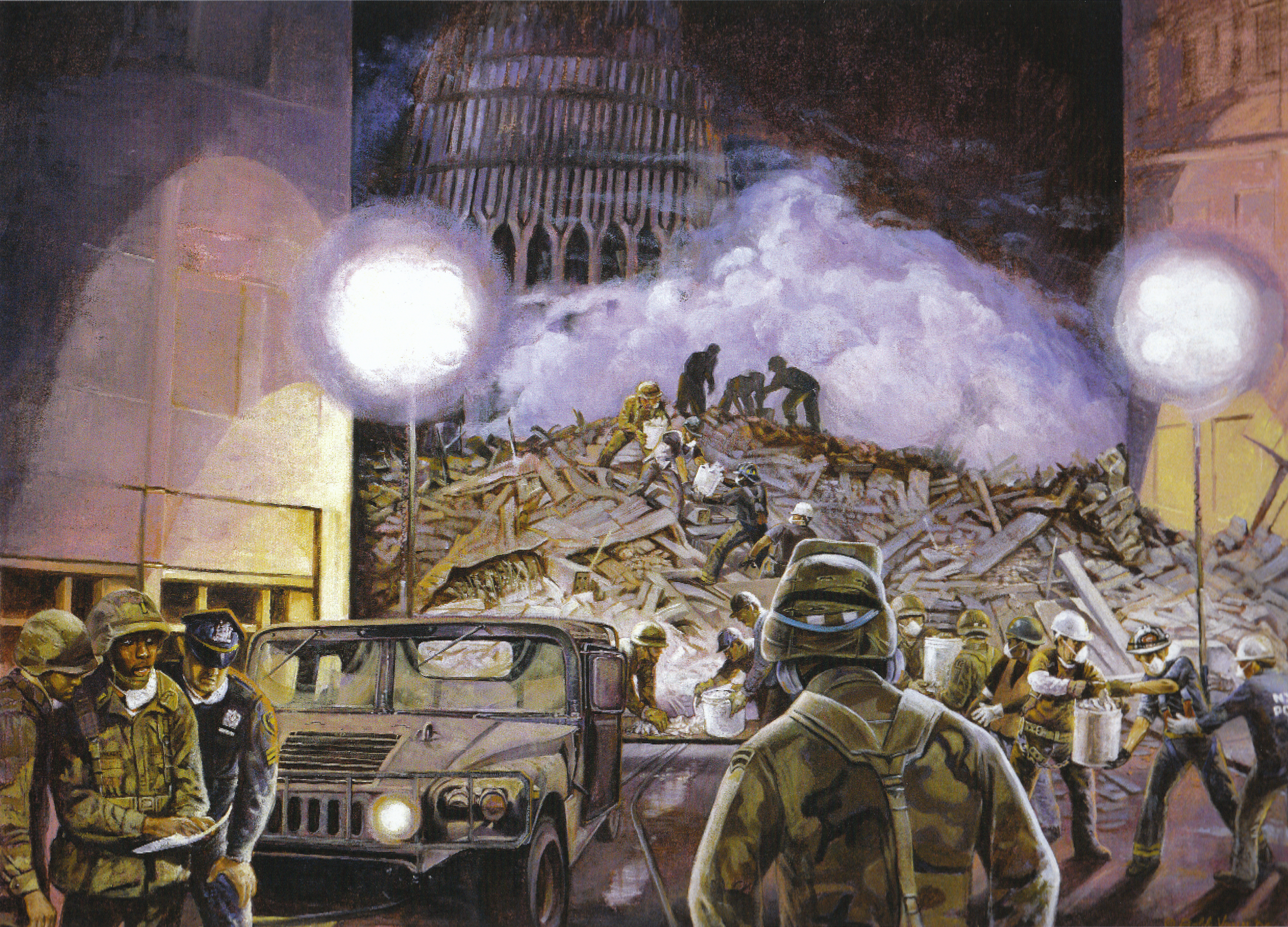 Art work of Ground Zero by Bobb Vann, published by the United States National Guard.